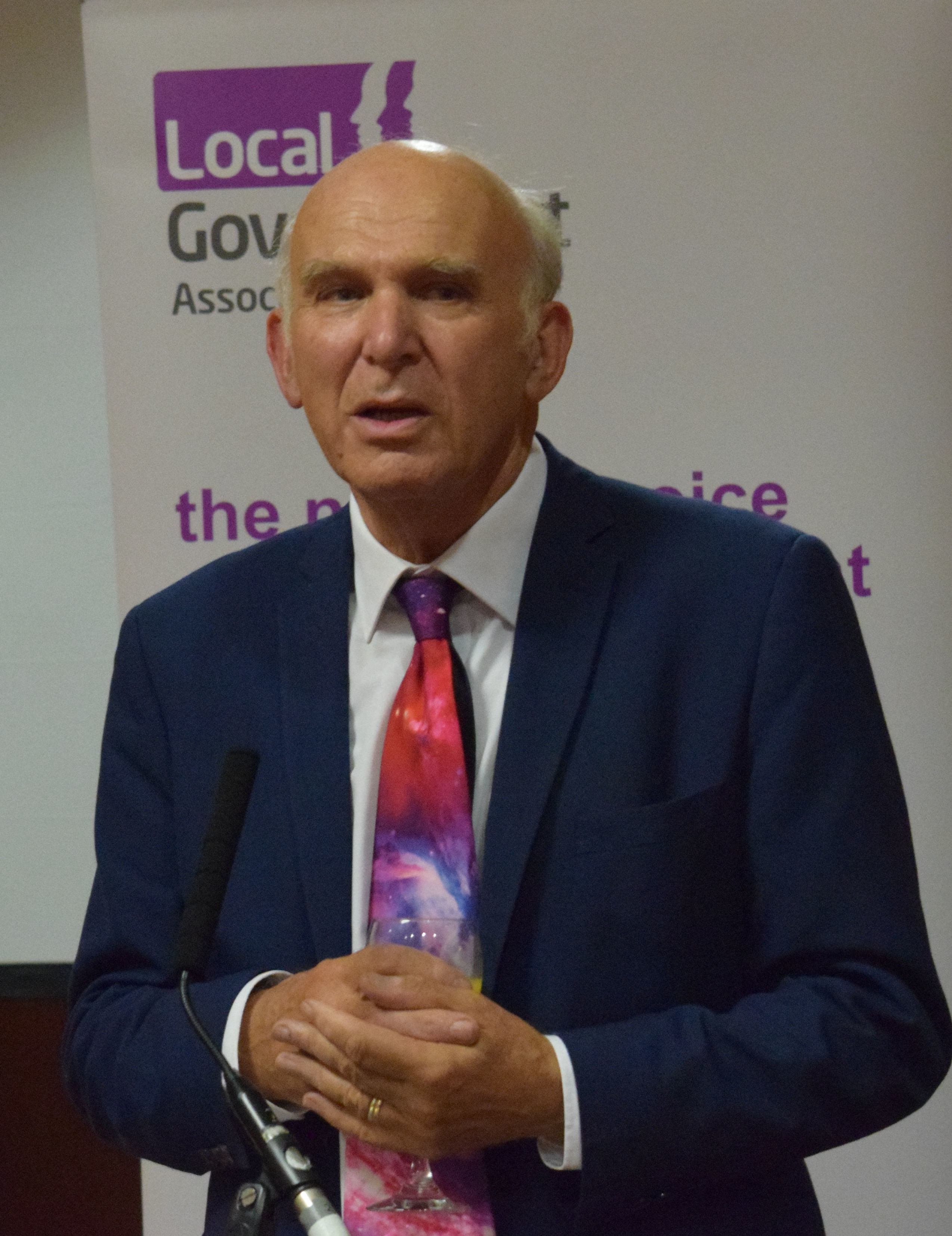 Vince Cable addressing a fringe meeting during the 2018 Liberal Democrat conference, in the Hilton Brighton Metropole